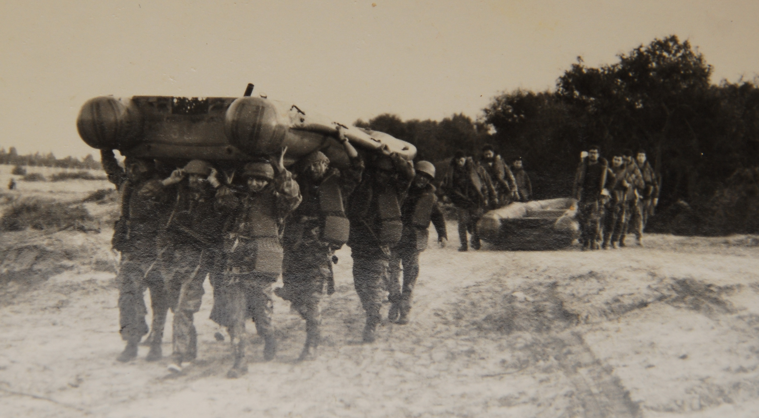 Israel Defense Forces